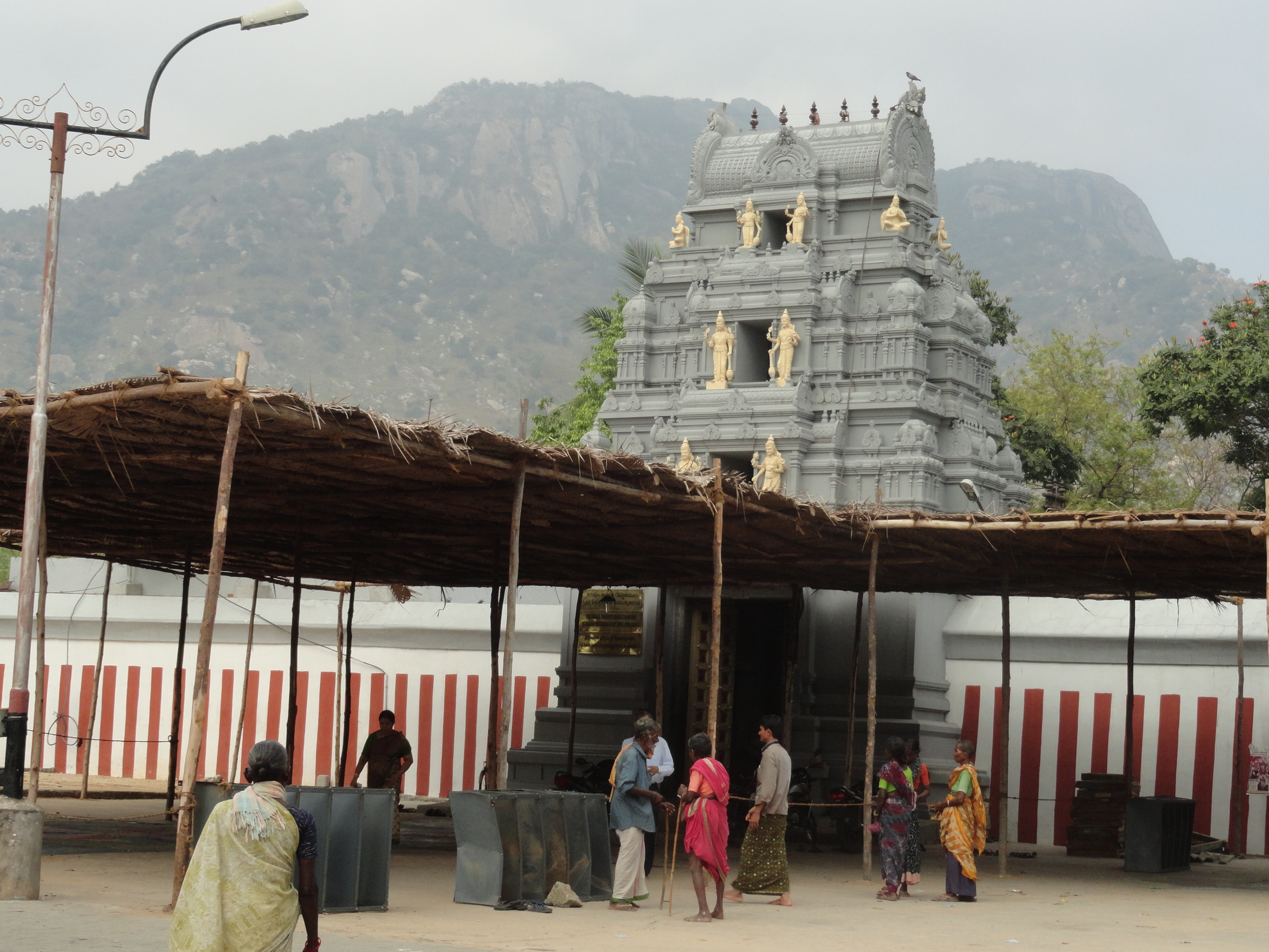 appalayaagunta venkateswara temple, near tirupati